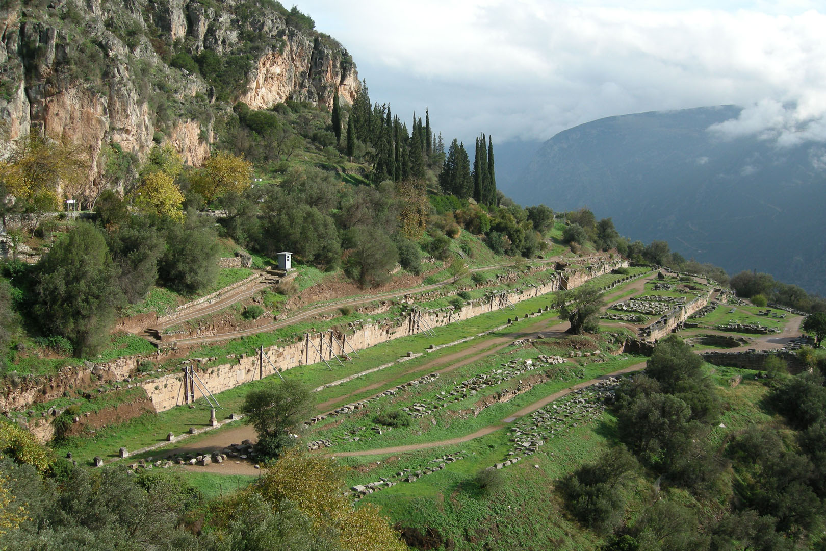 The ancient Gymnasium at Delphi, Greece